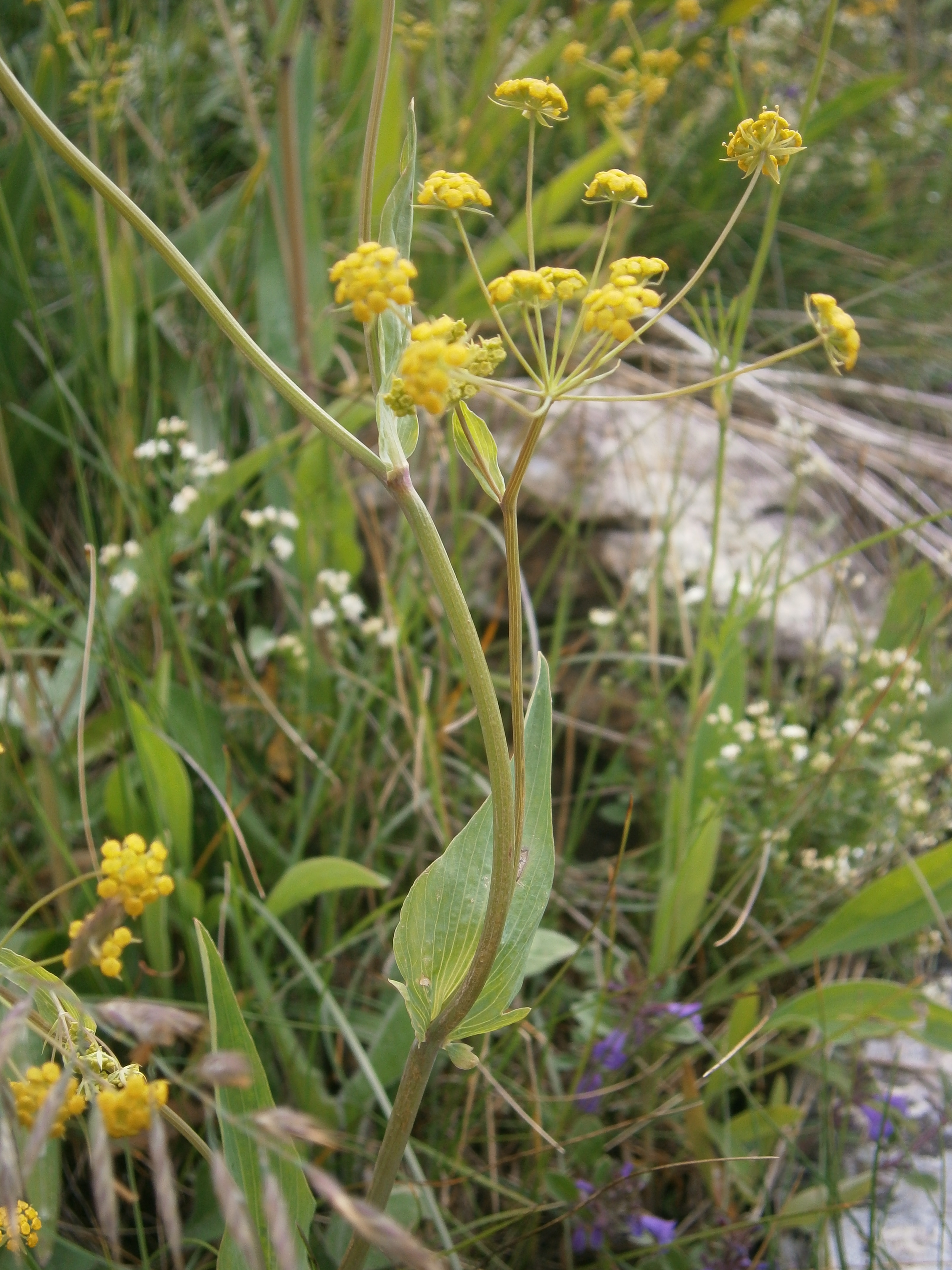 Bupleurum falcatum